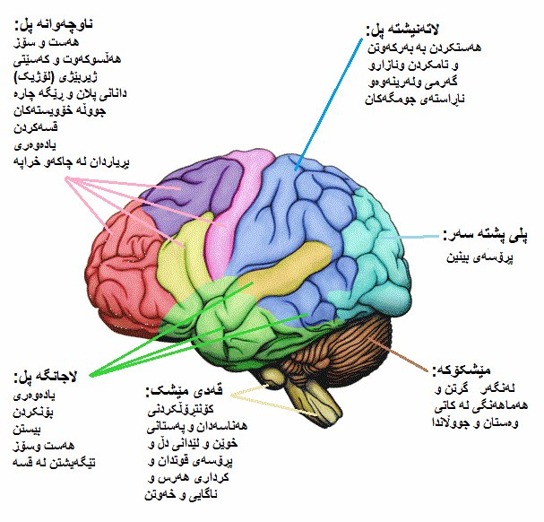 Human feelings in Human brainKurdî: هەستەکانی مرۆڤ لە مێشکی مرۆڤدا